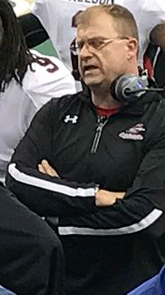 Gladiators during a timeout